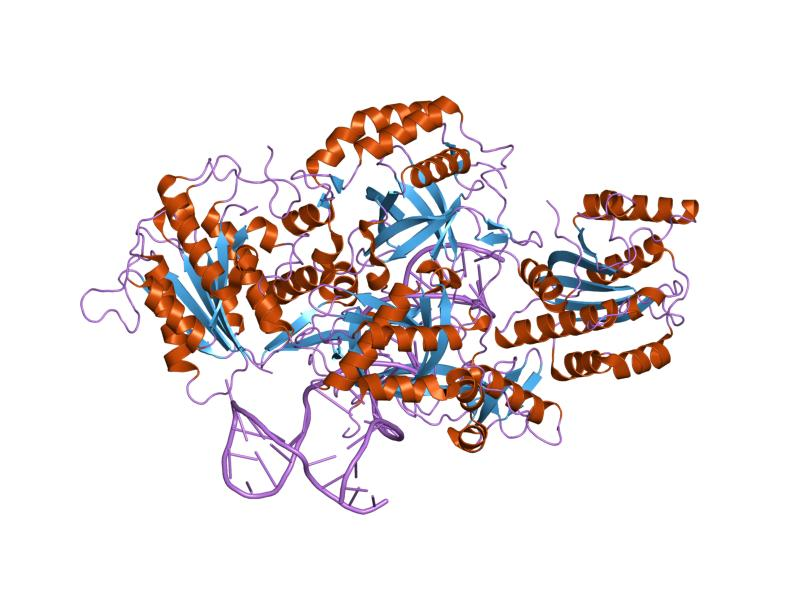 Cartoon representation of the molecular structure of protein registered with 1jey code.